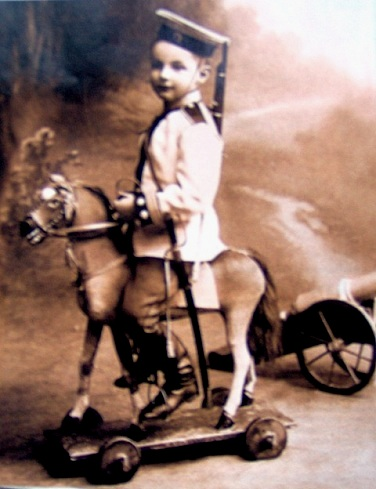 A photo of Hetmanych (Prince) Danylo as a junior, made in Saint Petersburg